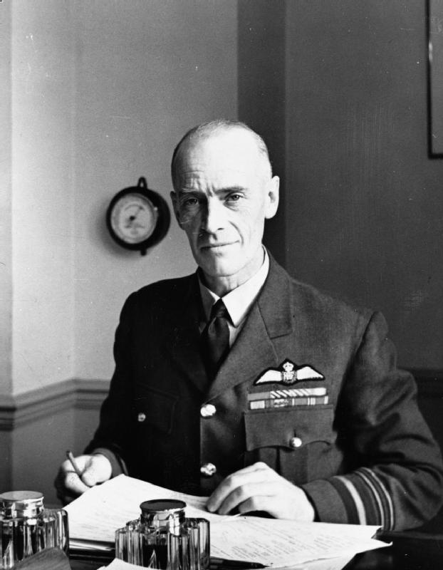 Royal Air Force Maintenance Command, 1939-1945. Air Marshal D G Donald, Air Officer Commanding-in-Chief, RAF Maintenance Command, at his desk in his Headquarters in Andover, Hampshire.